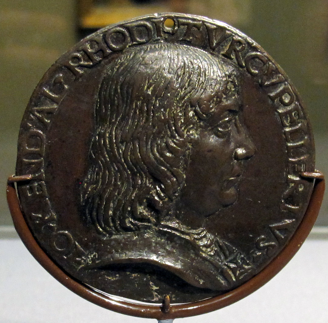 Medals in the Metropolitan Museum of Art